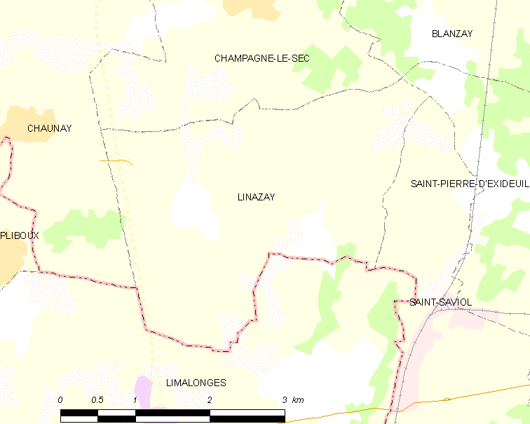 Map of French municipality Linazay